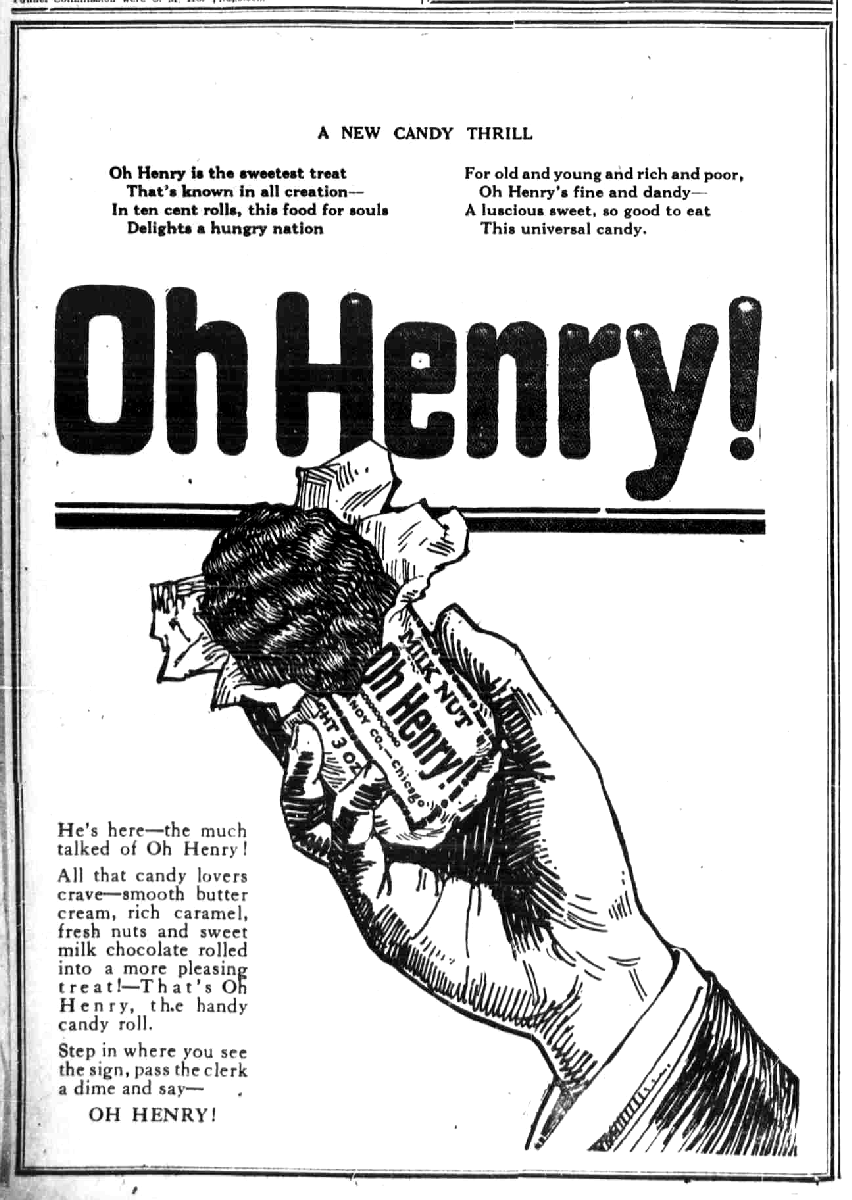 American newspaper ad for the Oh Henry! candy product.